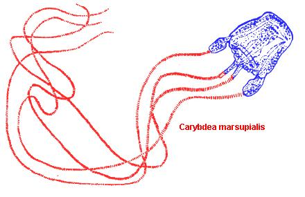 taken from (for the authorization see here)